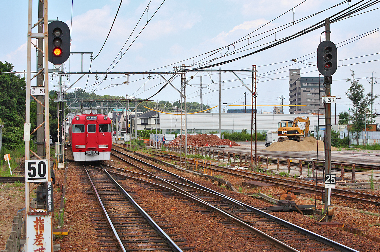 Ruins of Meitetsu Kitayama inspection department